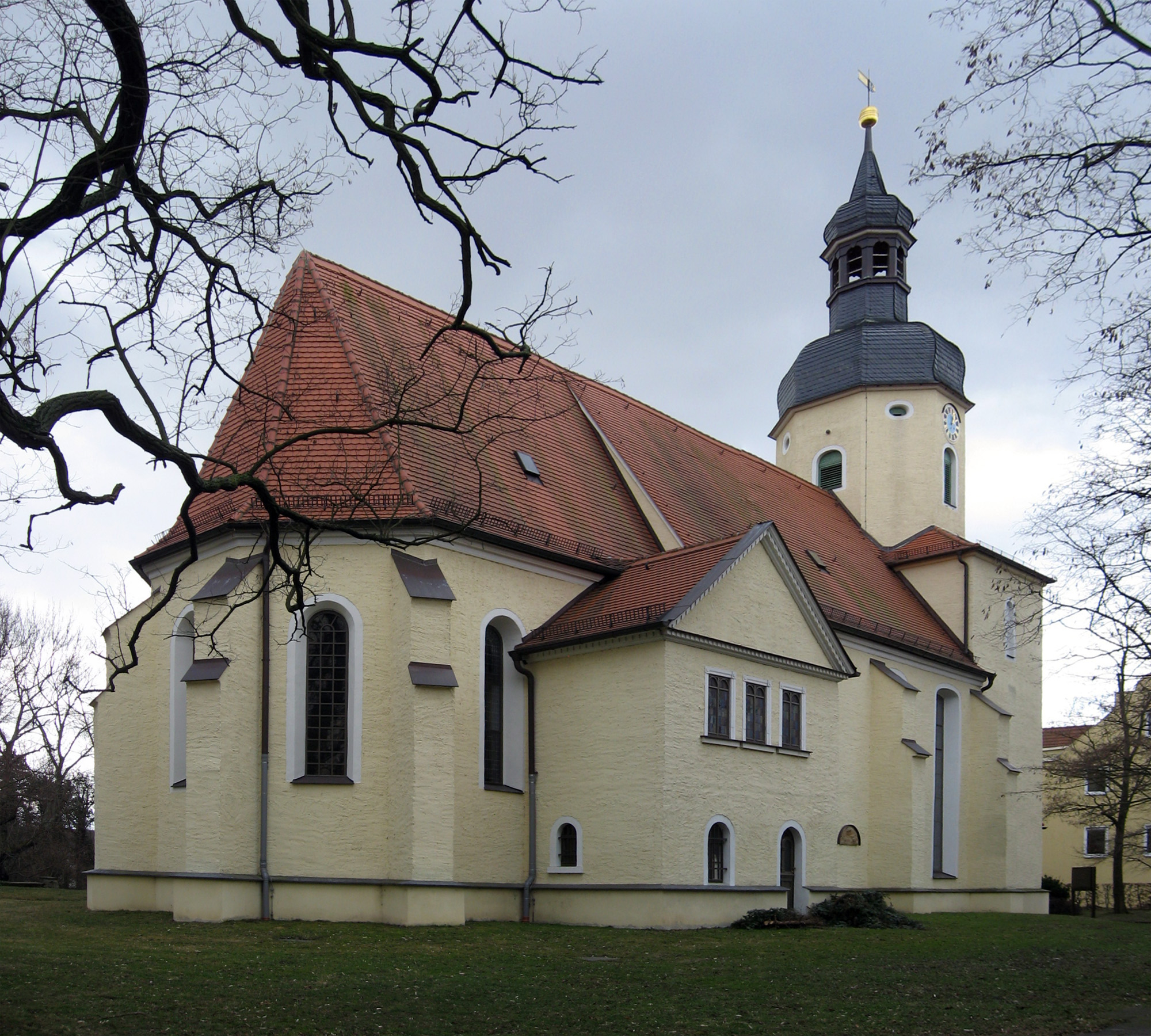 Church Leipzig-Liebertwolkwitz, Kirchstrasse